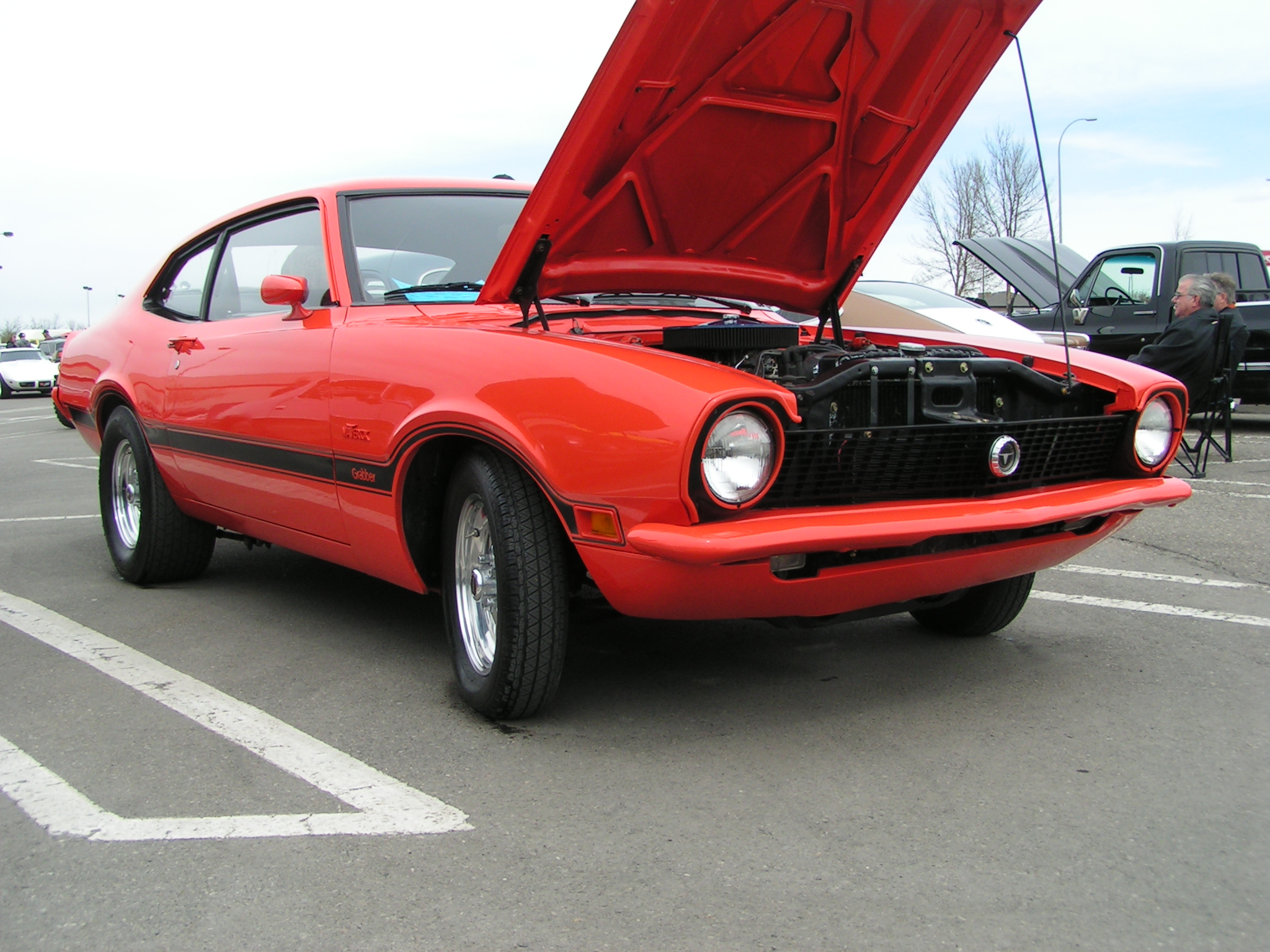 Ford Maverick Grabber